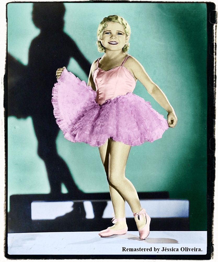 Daisy Earles in a scene from the movie Freaks, 1932 (remastered version by Jessica Oliveira).